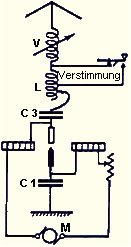 A circuit diagram of a Poulsen arc radio transmitter, a type of spark-gap radio transmitter used around 1920